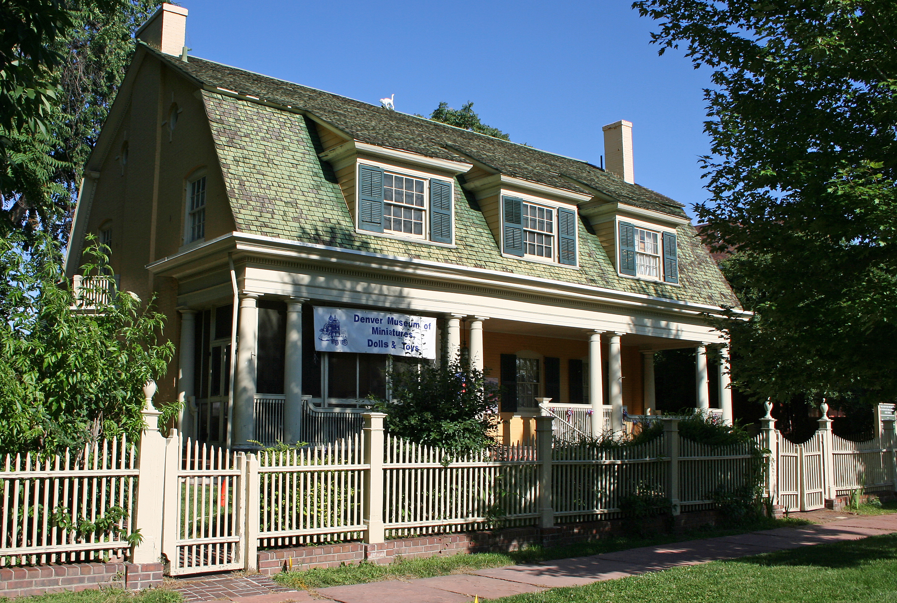 The Pearce-McAllister Cottage, located at 1880 Gaylord Street in Denver, Colorado